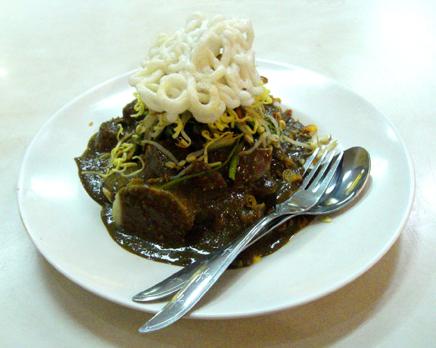 Rujak Cingur (Javanese: mouth rojak), varient of rujak specialty of Surabaya, East Java, Indonesia. Made from cooked buffalo snout, bengkuang (Pachyrhizus erosus), young mango, kangkung (water spinach or Ipomoea aquatica), pineapple, cucumber, tauge (beansprouts), lontong (glutinous rice cake), tofu, tempe, served in black sauce made from petis (black fermented shrimp paste, similar to terasi), and grinded peanuts, topped with sprinkle of fried shallots and krupuk (shrimp cracker).